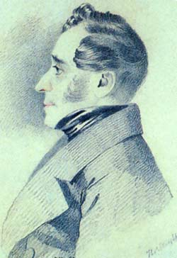 Alexander Bulgakov (1781—1863), Russian diplomat, senator and postmaster